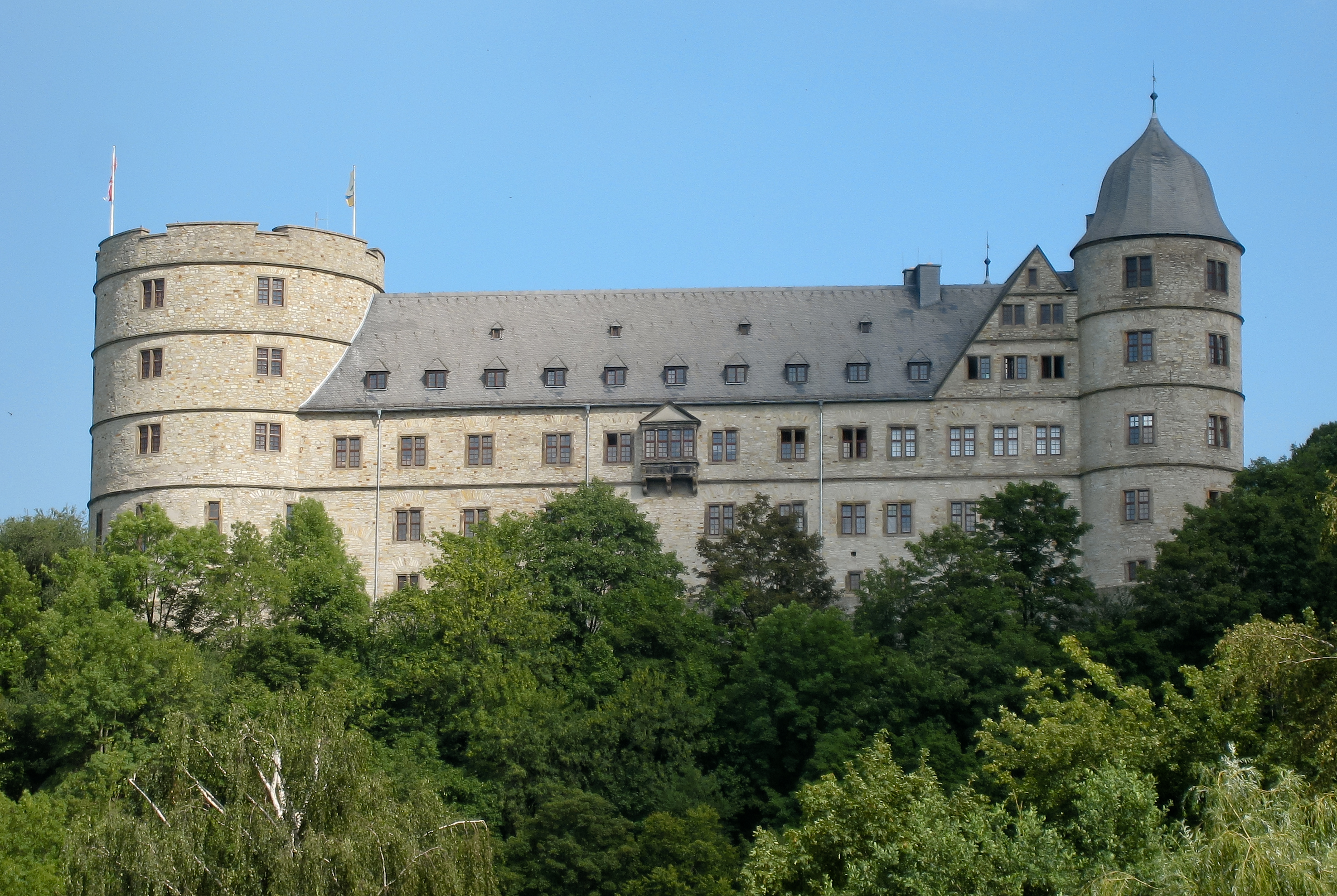 Wewelsburg